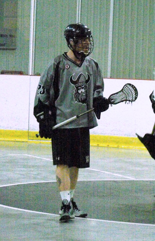 These images of Ontario Junior B Lacrosse Action action during the 2014 season are taken by Devan Mighton.